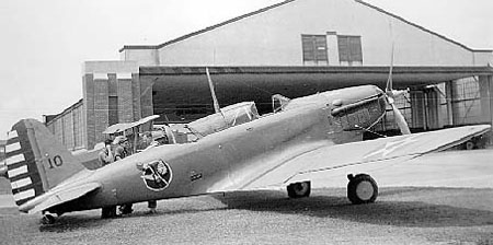 Consolidated P-30A